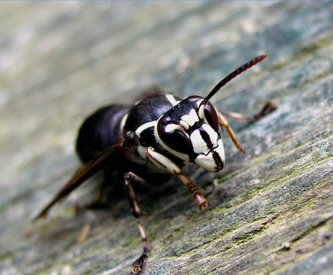 I took this picture of a Bald-Faced Hornet {